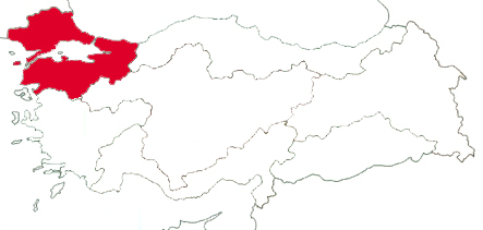 Map of Turkey with highlighted Marmara Region (Marmara Bölgesi)